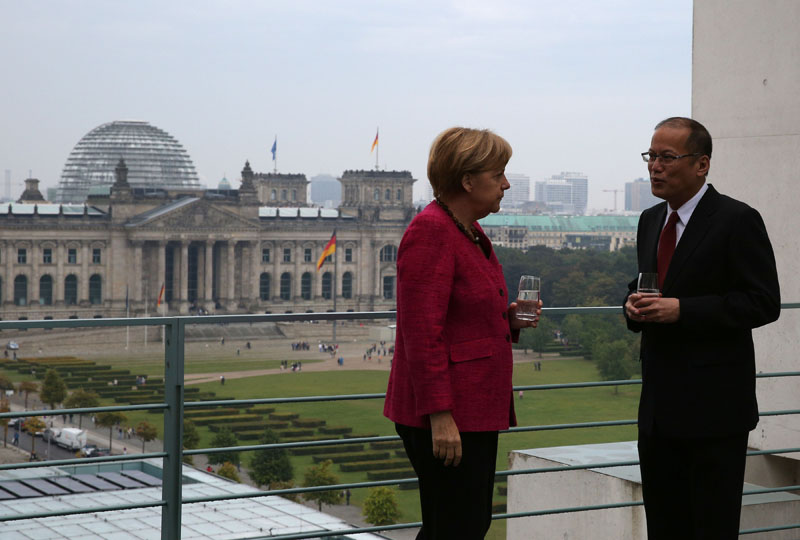 Philippine President Benigno Aquino III meets with German Chancellor Angela Merkel at the balcony of the German Chancellery (Bundeskanzleramt), overlooking Berlin, on 19 September 2014.